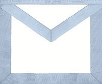 Master Mason Schröder Rite Apron